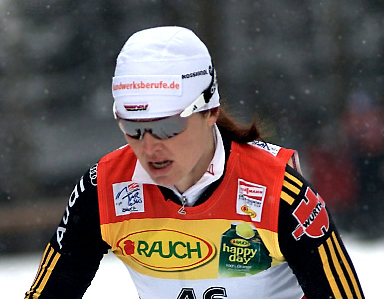 Katrin Zeller at the Tour de Ski 2010 in Oberhof